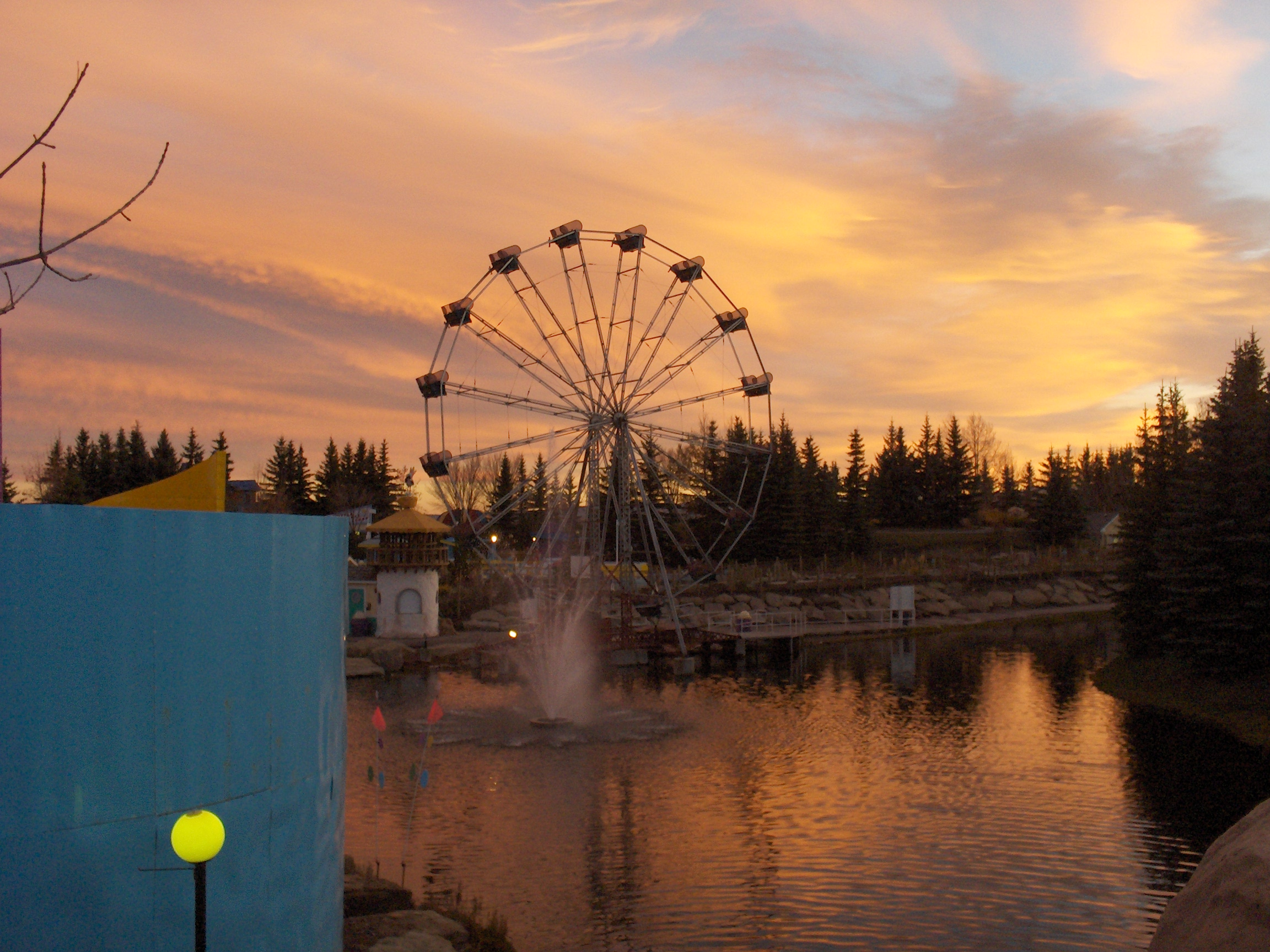 Calaway Park (Calgary, Canada) - Big Eli (Calaway's name for their Ferris Wheel) in front of a sunset. Also shown are the Twiz and Twirl Maze (left) and Mulligan’s Island Mini Golf (immediate left of Big Eli).